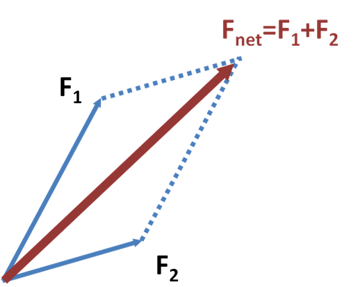 vector addition